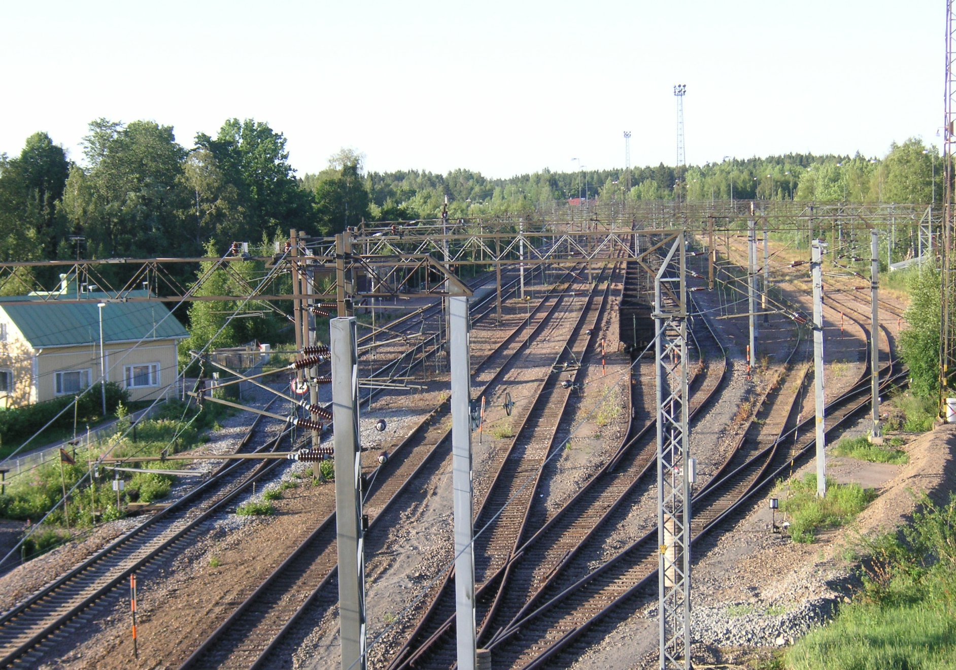 Railyard of Kymi Railway Station in Kotka, Finland. The photograph is taken from Karhulantie (Karhula Road) bridge to the direction of Tavastila.